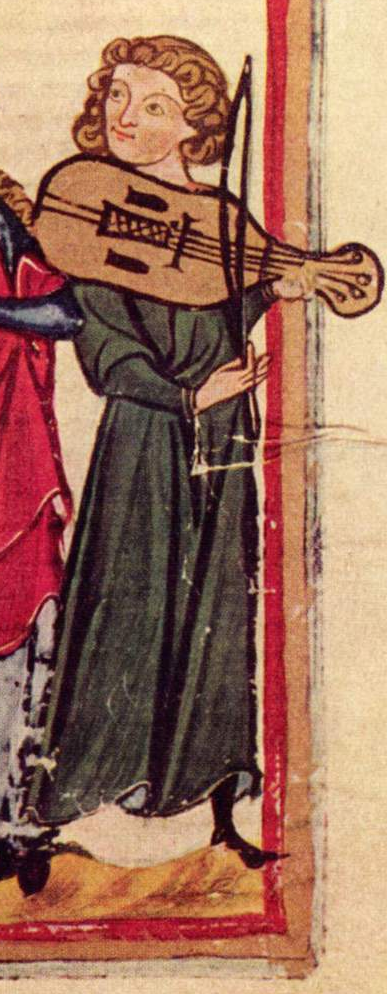 Cropped from File:Meister der Manessischen Liederhandschrift 003.jpg.